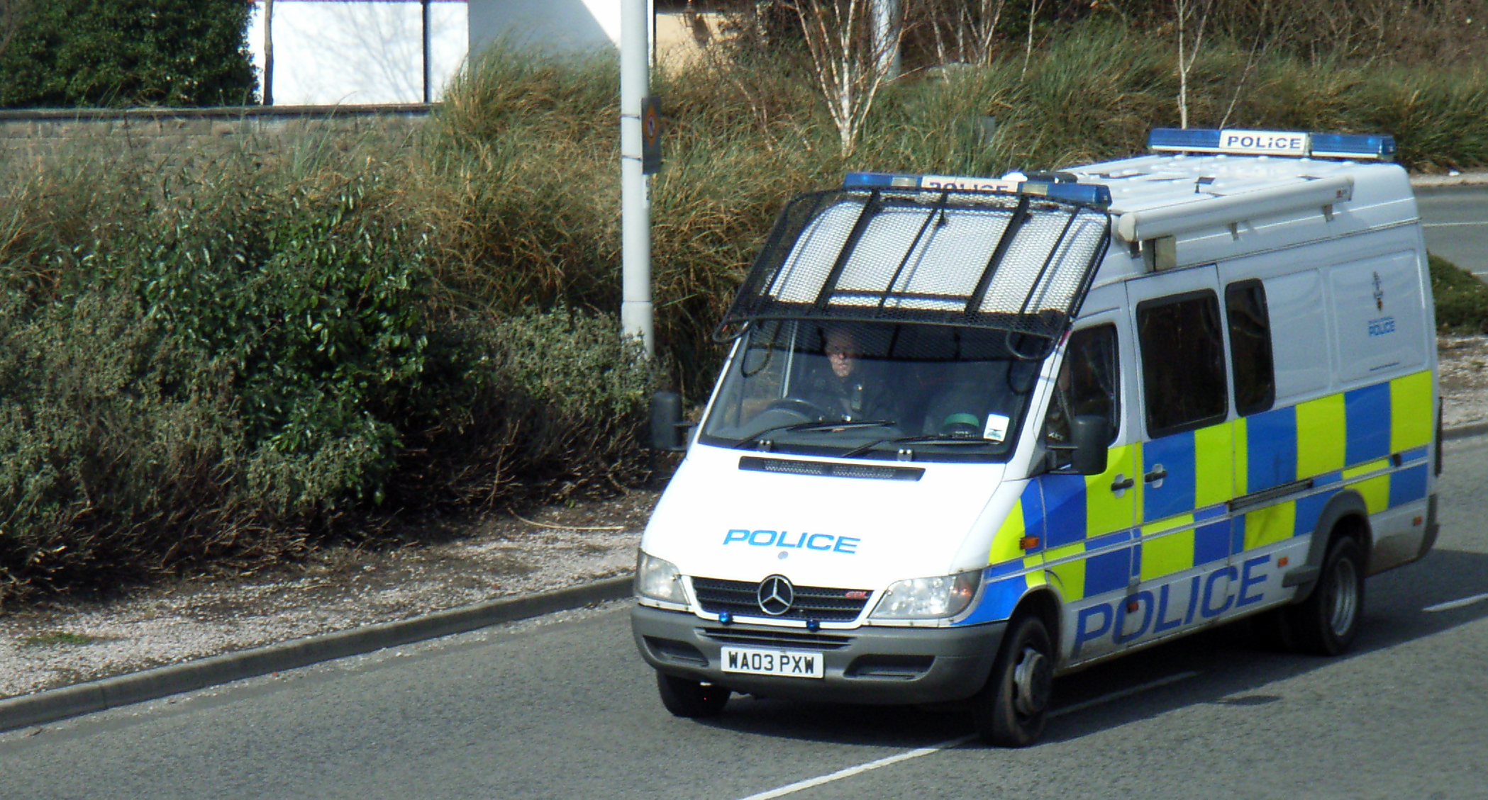 Marsh Mills Plymouth 13 March 2009